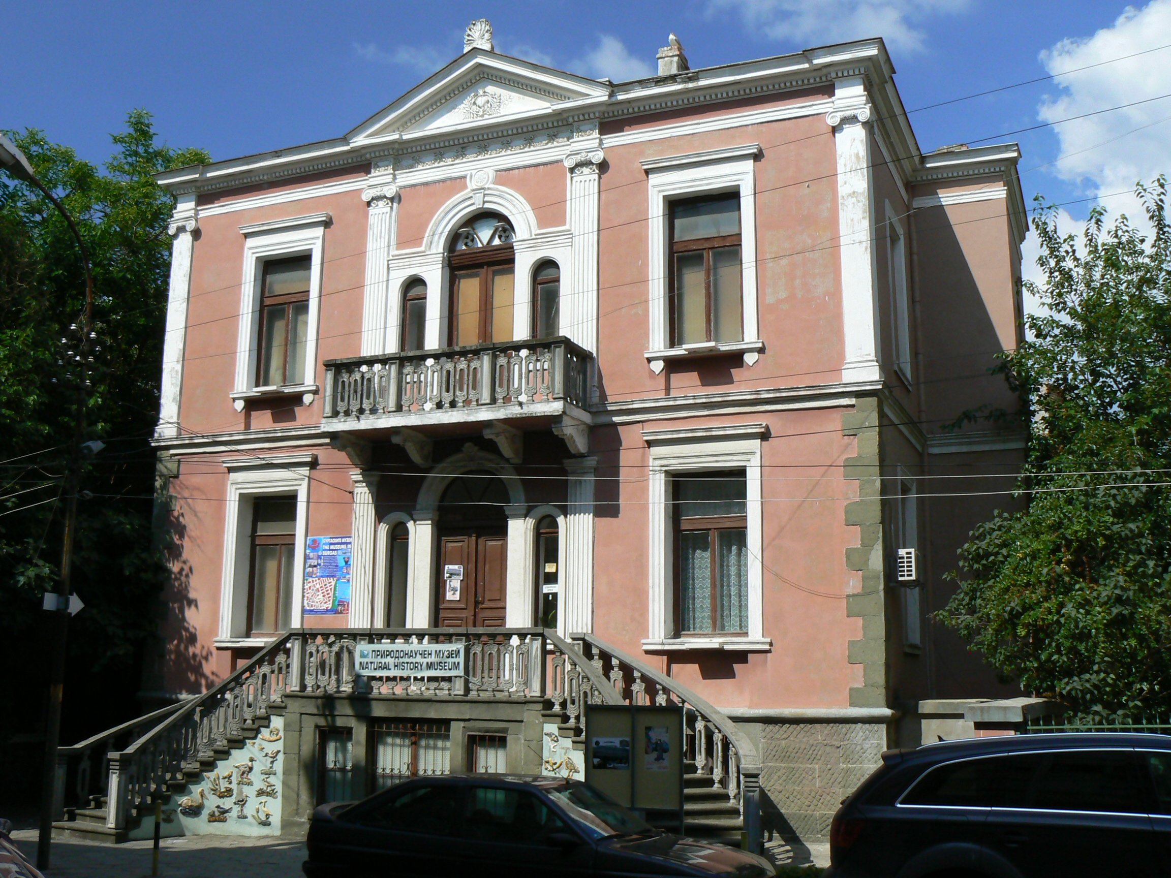 Natural history museum of Burgas, Bulgaria